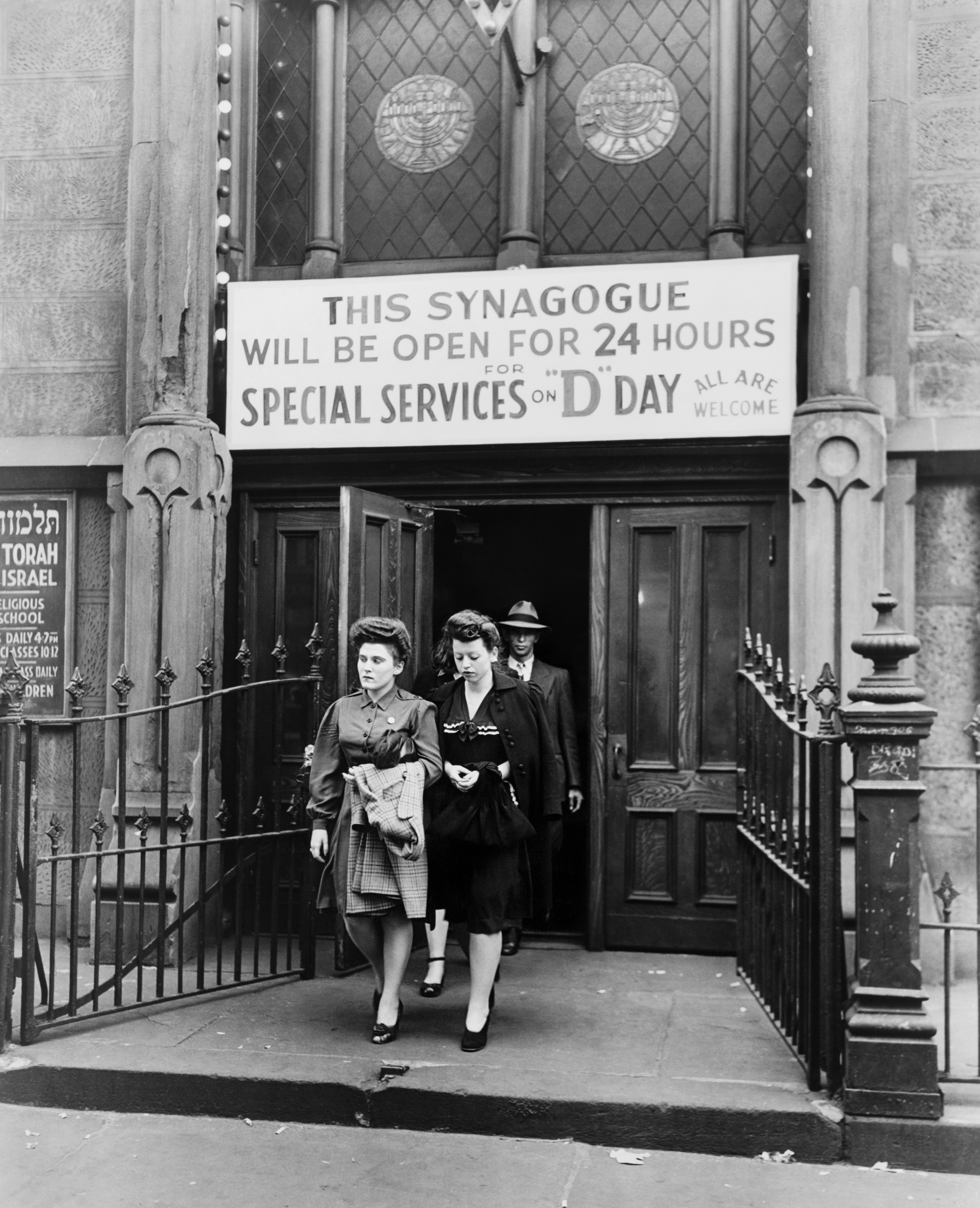 New York, New York. June 6, 1944. D-day services at Congregation Emunath Israel on West Twenty-third Street